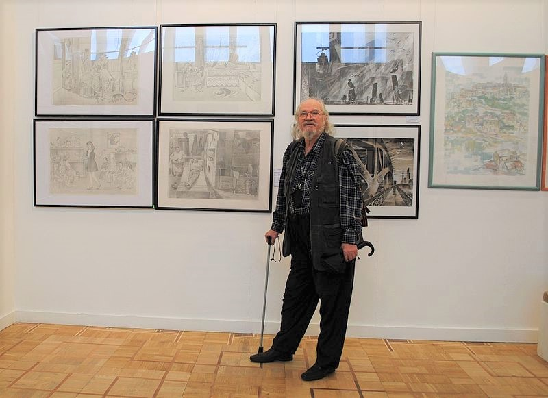 Kubarev Livny